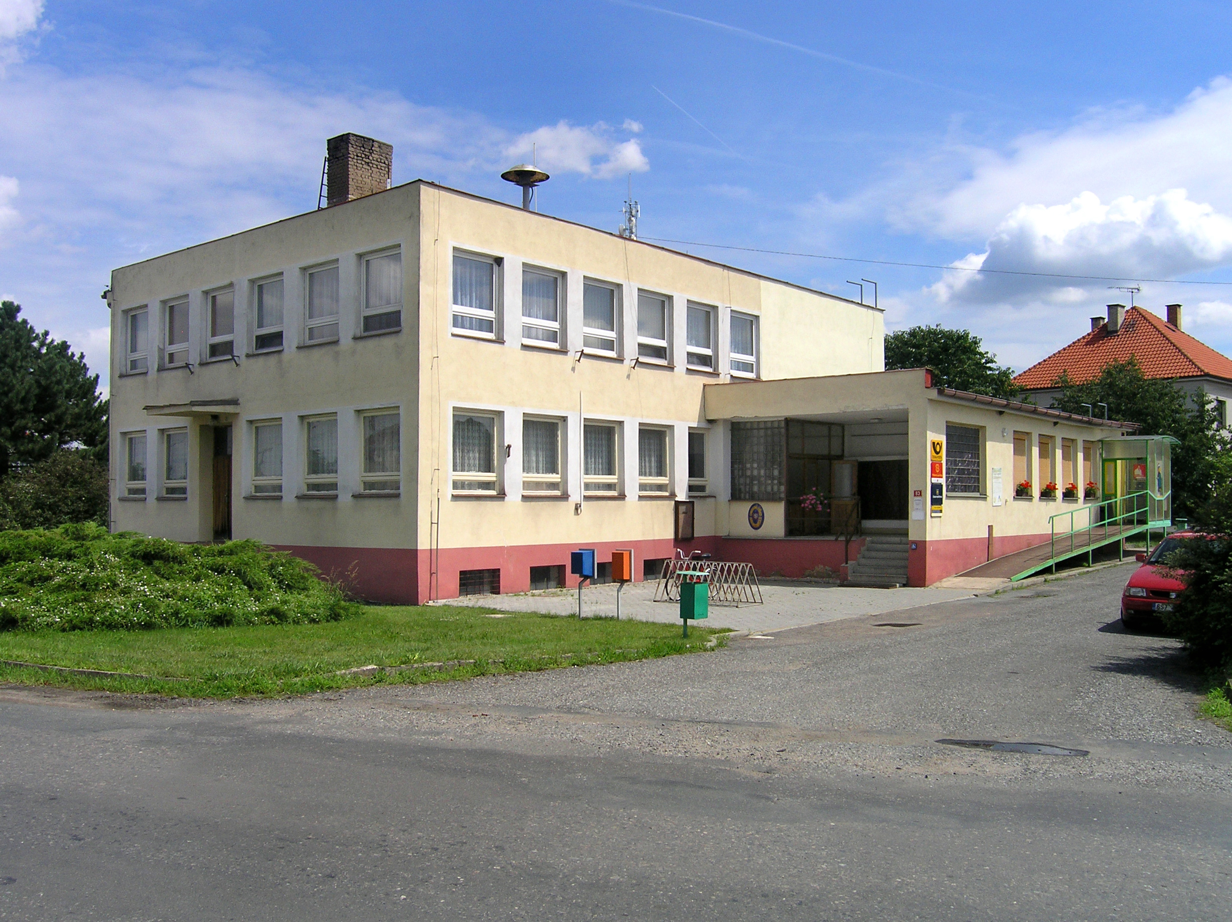 Municipally office and post office in Radovesnice II, Czech Republic